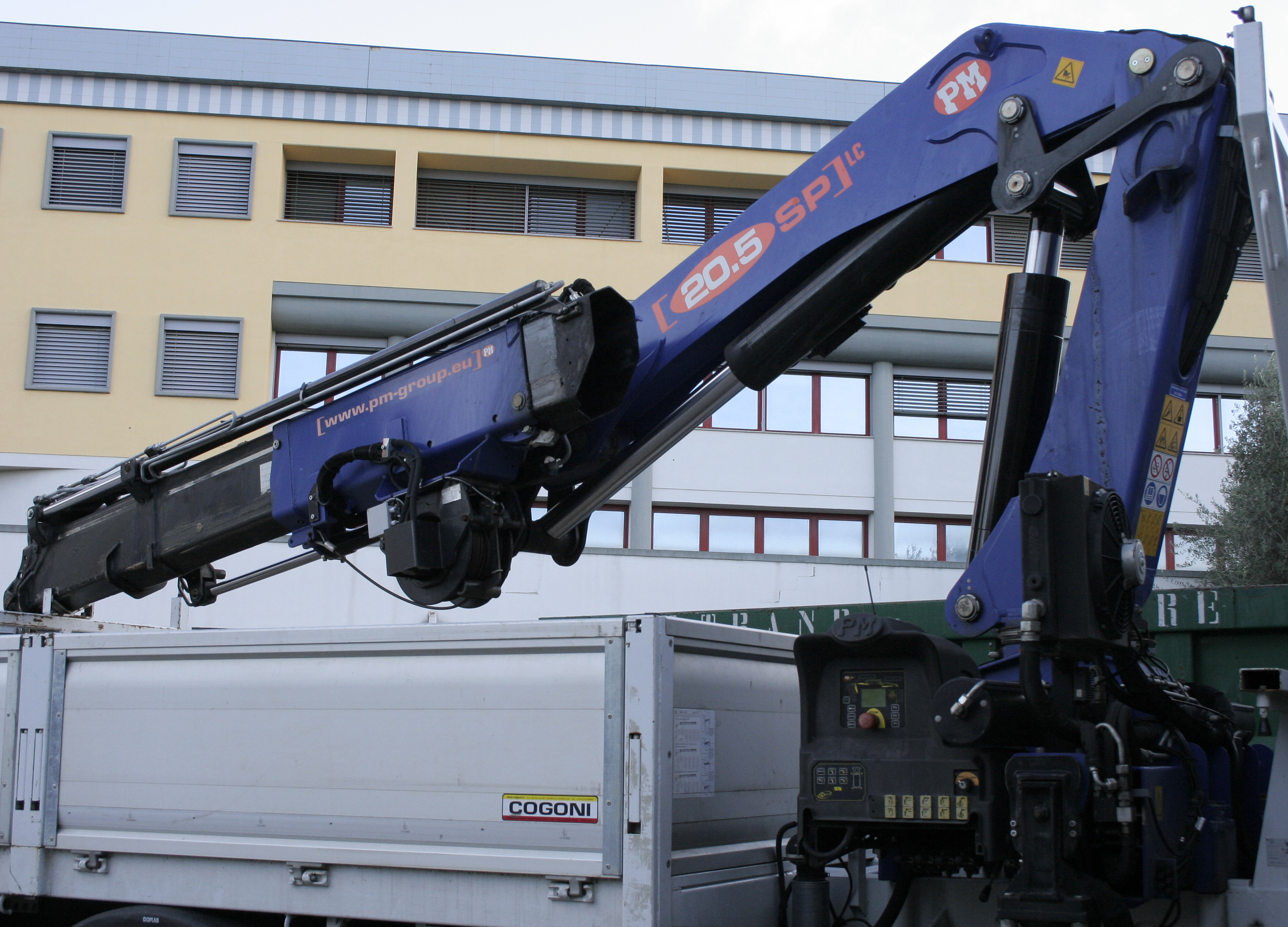 PM Crane